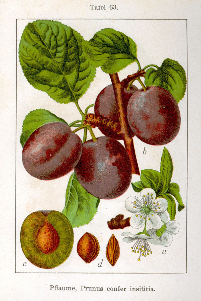 Prunus domestica L. Original Description Pflaume, Prunus confer insititia